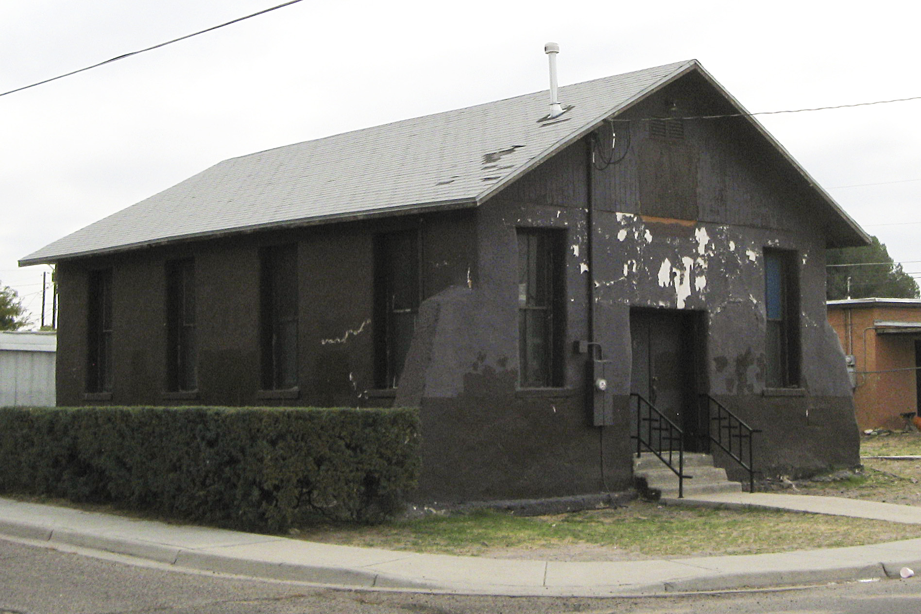 Phillips Chapel CME Church, located at 638 N. Tornillo Street (southeast corner of Tornillo and Lucero) in Las Cruces, New Mexico. Constructed 1908. On the National Register of Historic Places, NRIS Item No. 03000735.